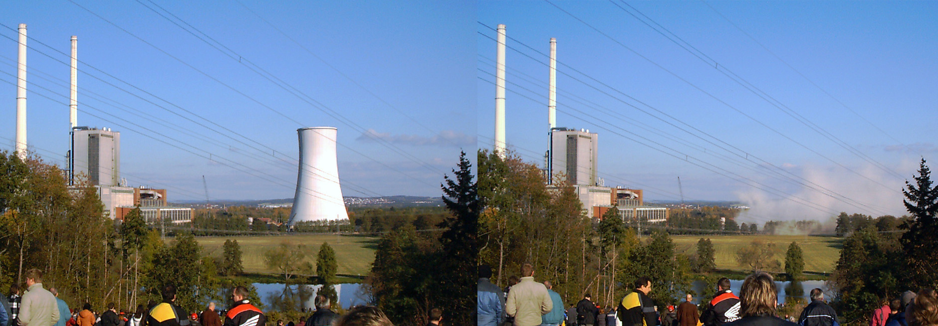 Two pictures: Before and after the detonation of the cooling tower at the power station of Schwandorf.